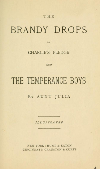 "The brandy drops; or, Charlie's pledge and The temperance boys" by Aunt Julia (18--) (Colman, Julia, 1828-1909)